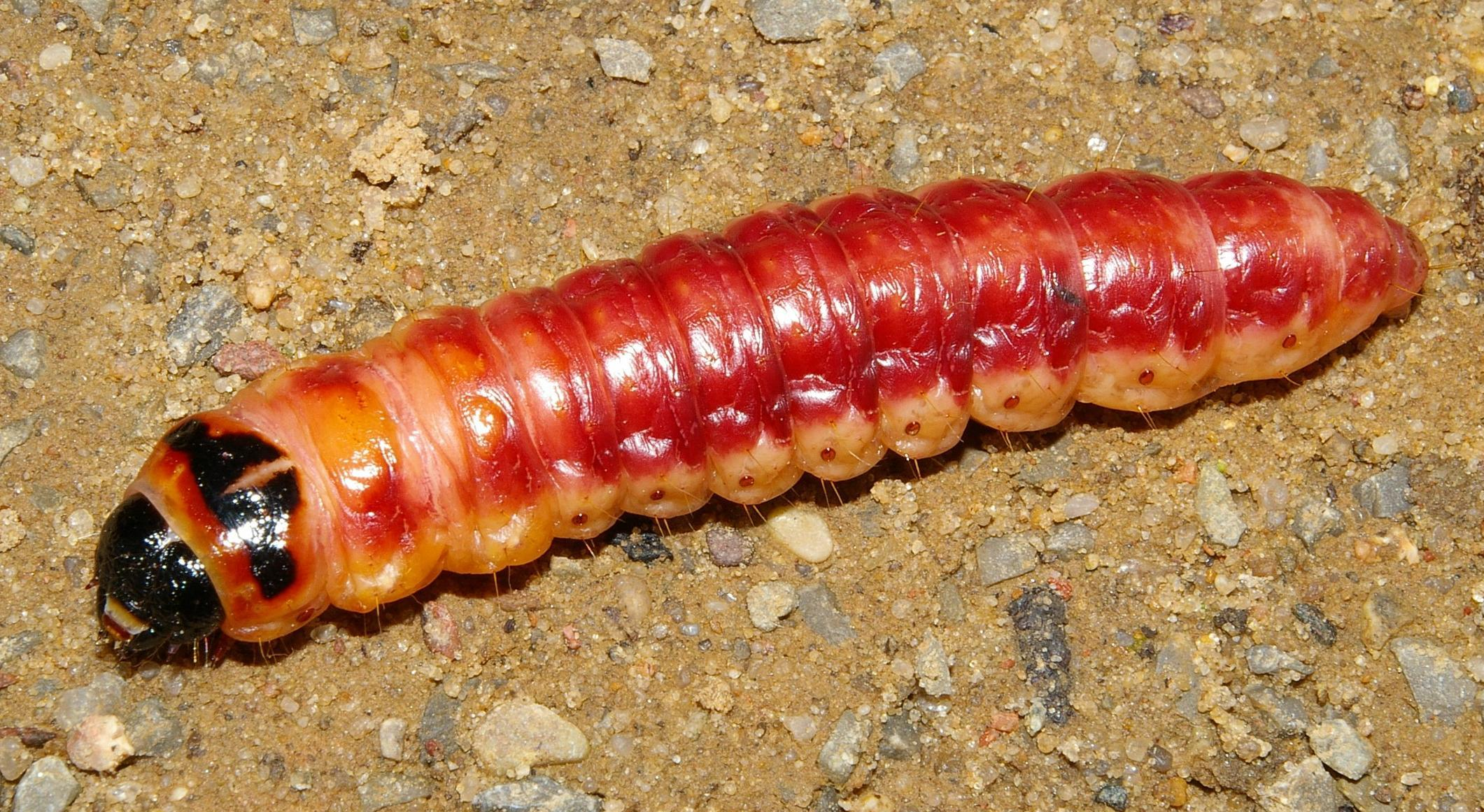 Caterpillar of Cossus cossus, about 8 cm long.